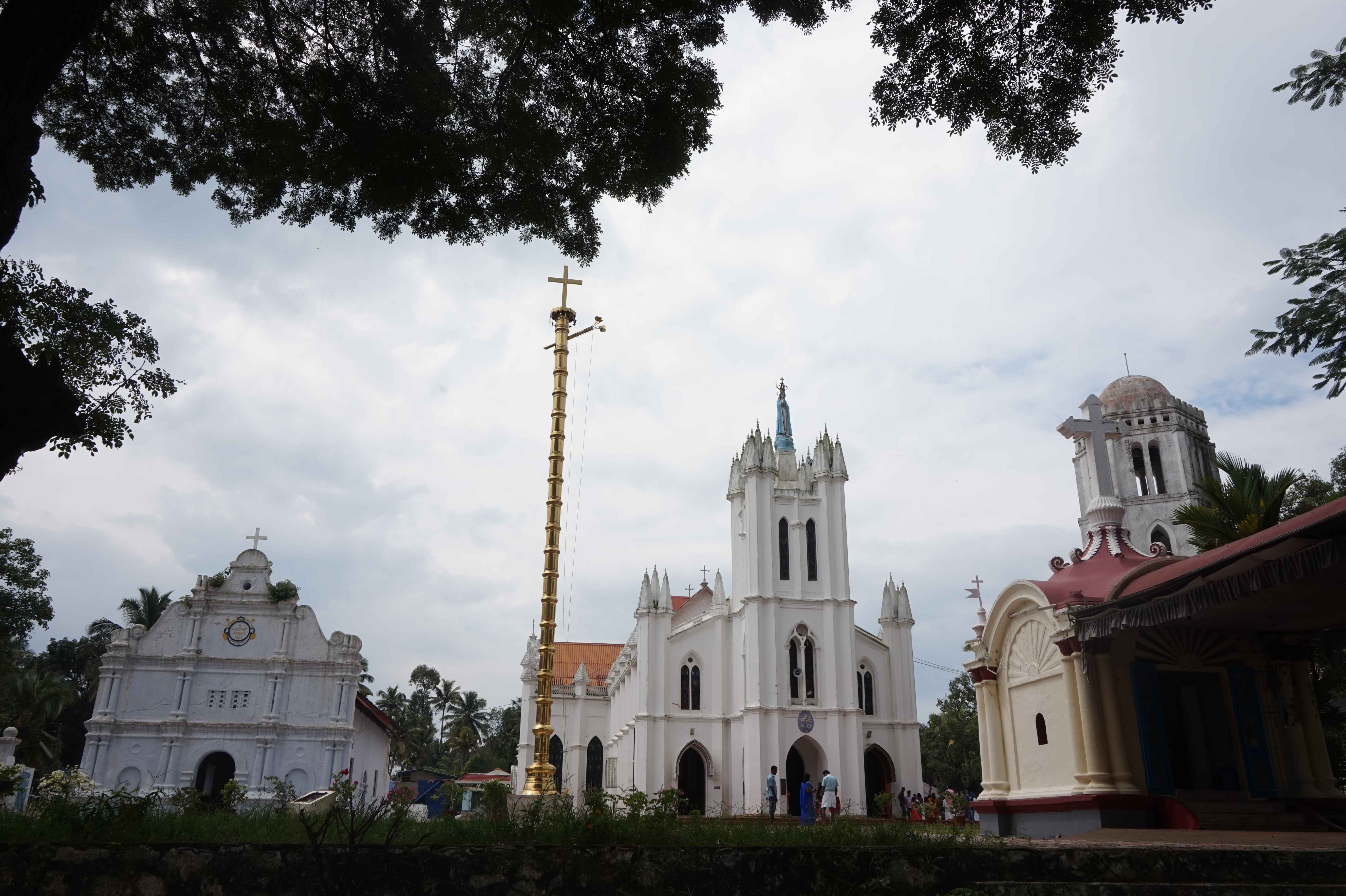 An overall view of the Basilica of Our Lady of Snow complex, Pallippuram